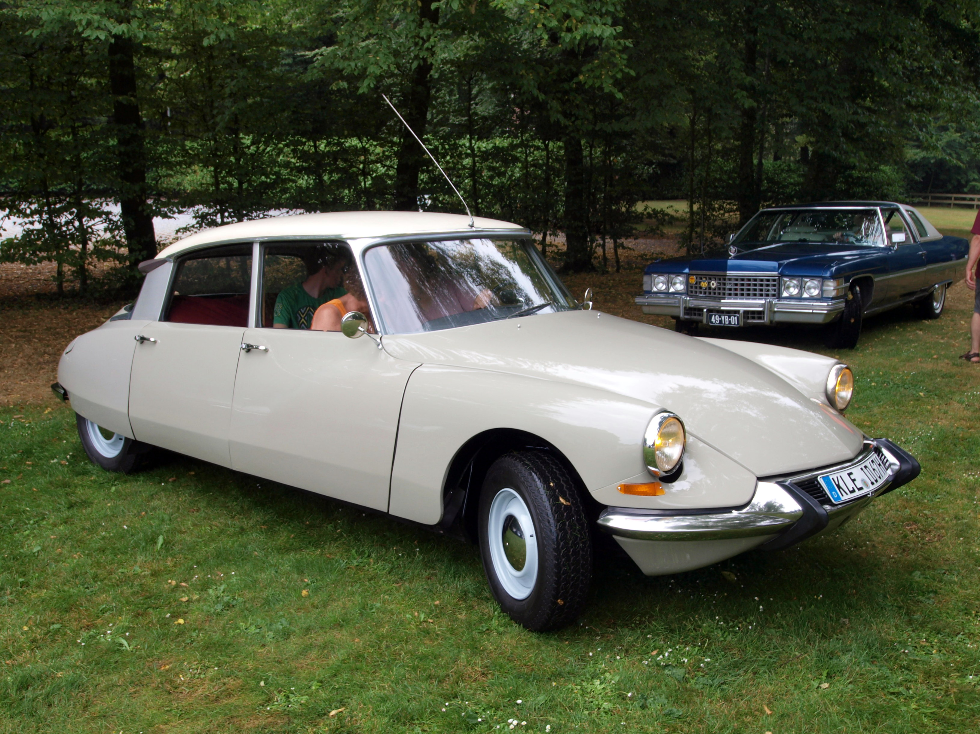 German Citroën DS